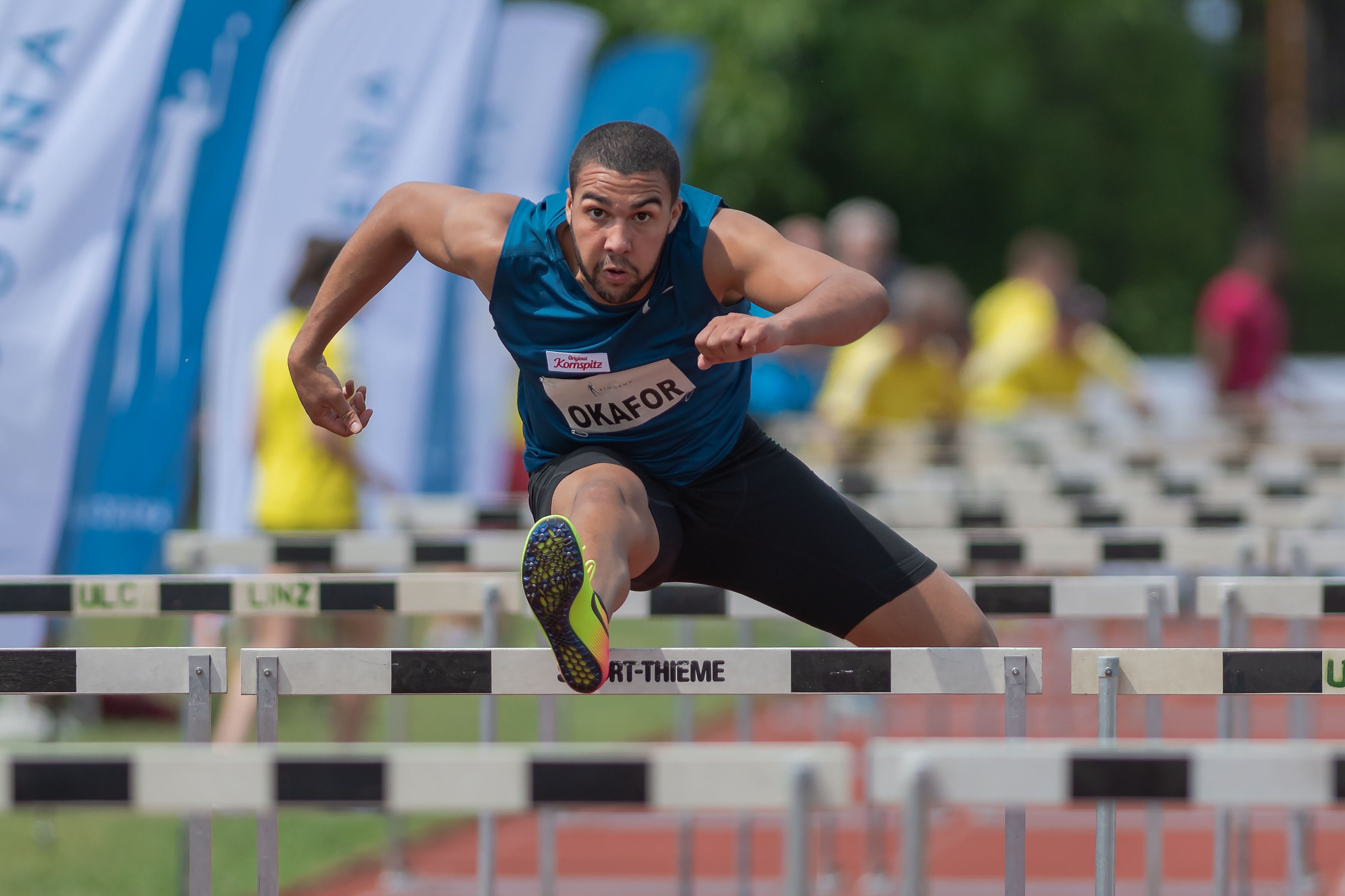 Leichtathletik Gala Linz 2018; men´s 110m hurdles; Okafor